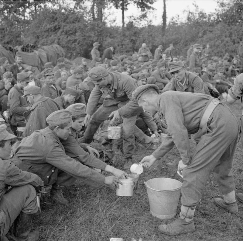 The British Army in Normandy 1944 Tea is served to German prisoners in the Falaise pocket, 22 August 1944.